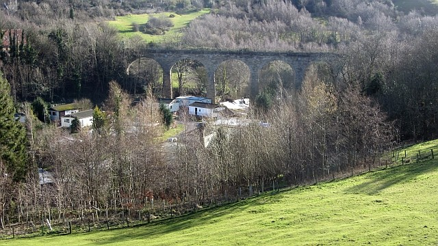 Disused railway viaduct at Polton, Midlothian, Scotland